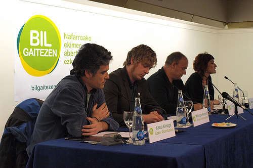 Public debate between Navarre basque independentist political representatives